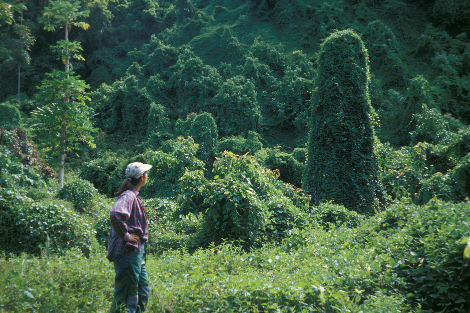 Tetrastigma pubinerve (with Kim). Location: Maui, Honokahau Valley